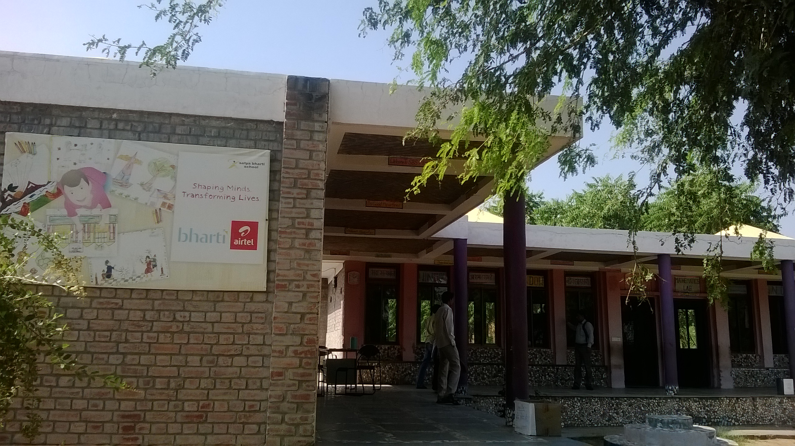 Satya Bharti School run by Bharti Foundation